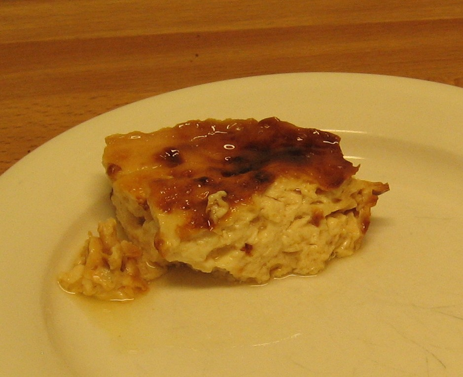 Close up picture of Fatost